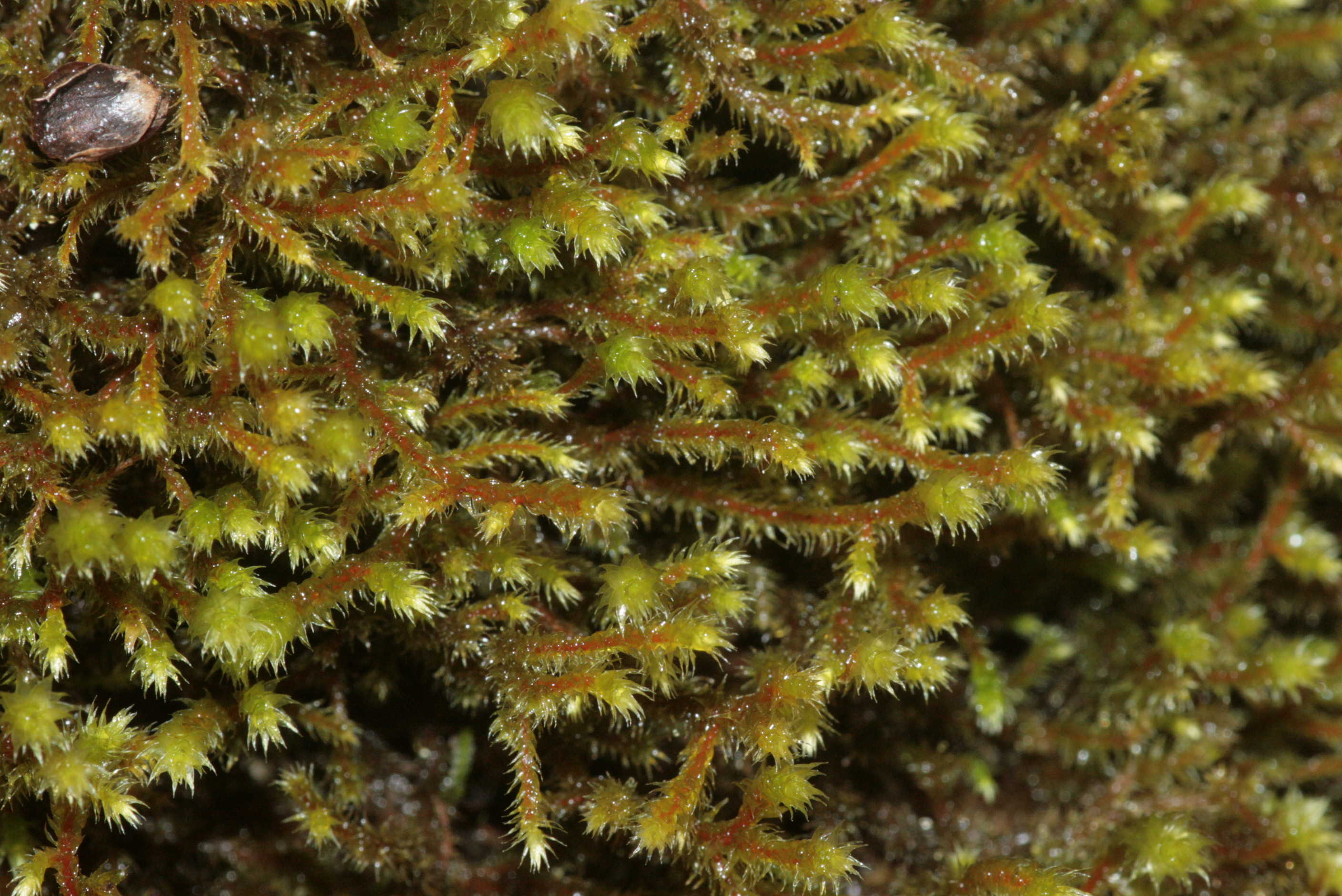 Antitrichia curtipendula